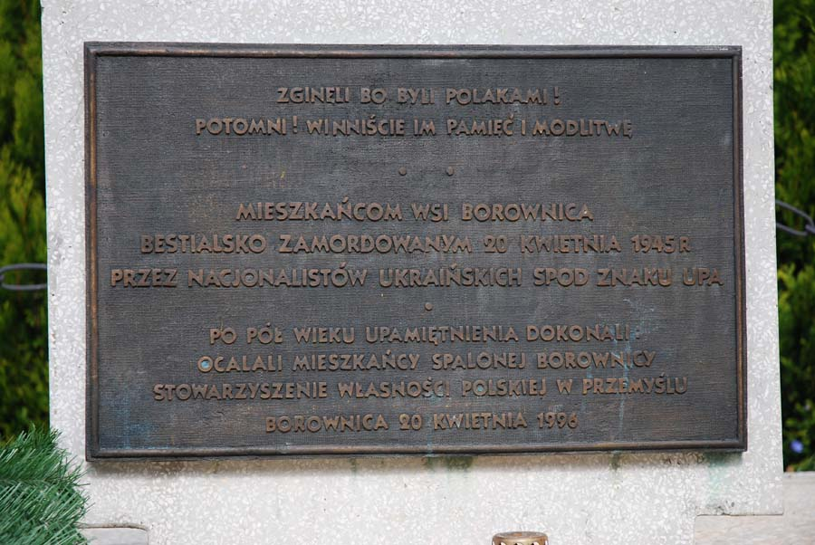 Borownica (Poland), monument